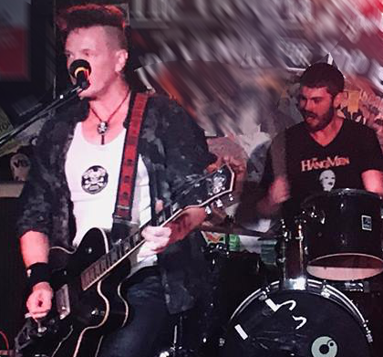 Guitarist and drummer live in 2018